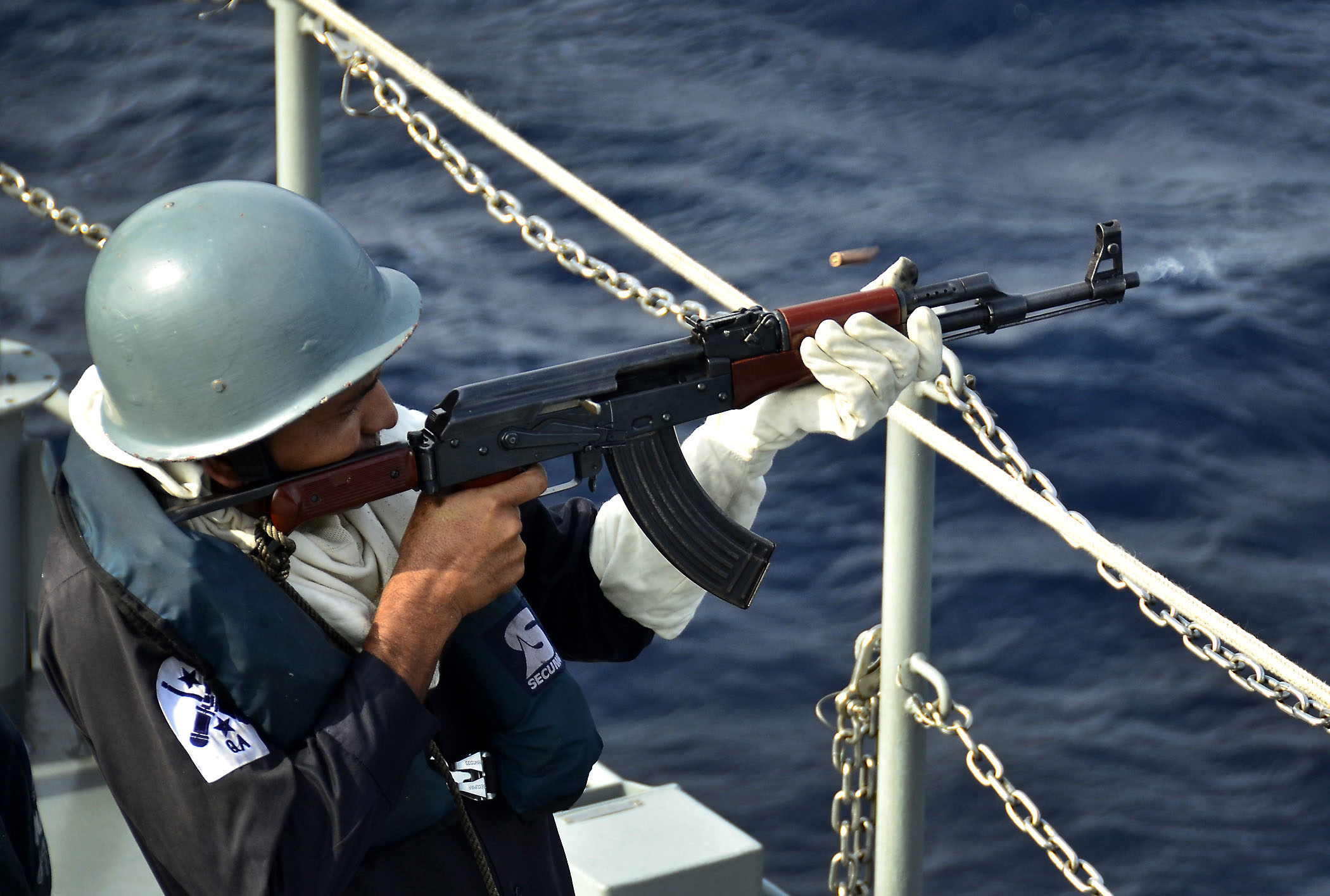 BAY OF BENGAL (Sept. 22, 2011) A Bangladesh navy sailor fires a Type-56 assault rifle aboard the Bangladesh navy frigate BNS Bangabandhu (F 25) during a surface gunnery exercise as part of Cooperation Afloat Readiness and Training (CARAT) Bangladesh 2011. CARAT is a series of bilateral exercises held annually in Southeast Asia to strengthen relationships and enhance force readiness. Bangladesh is participating in this exercise for the first time. (U.S. Navy photo by Mass Communication Specialist 2nd Class Daniel Barker/Released)